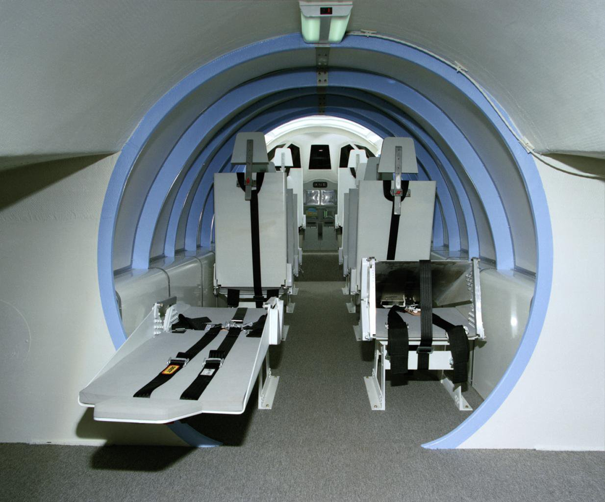 Model of the interior of the HL-20 lifting body aircraft designed for NASA.